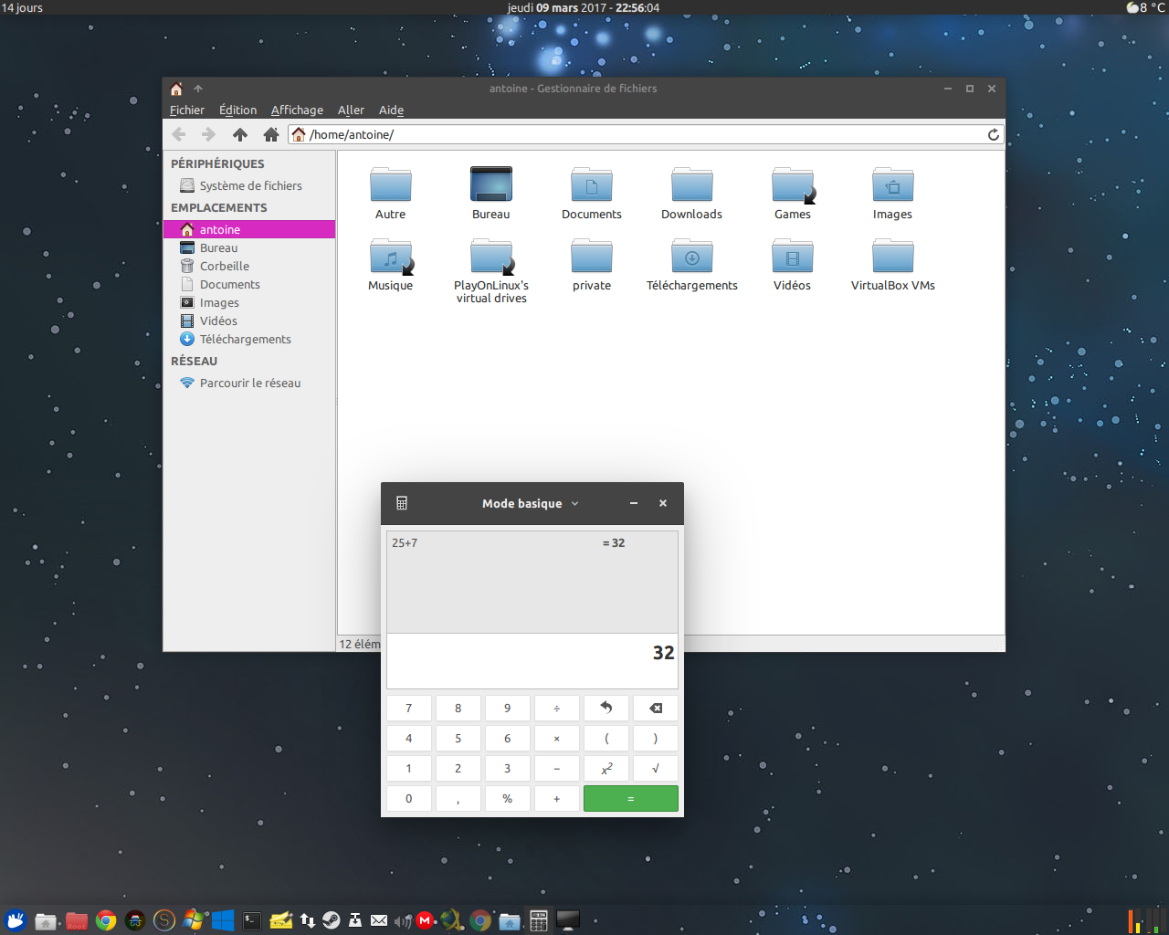 Screenshot of Xfce 4, Numix theme.